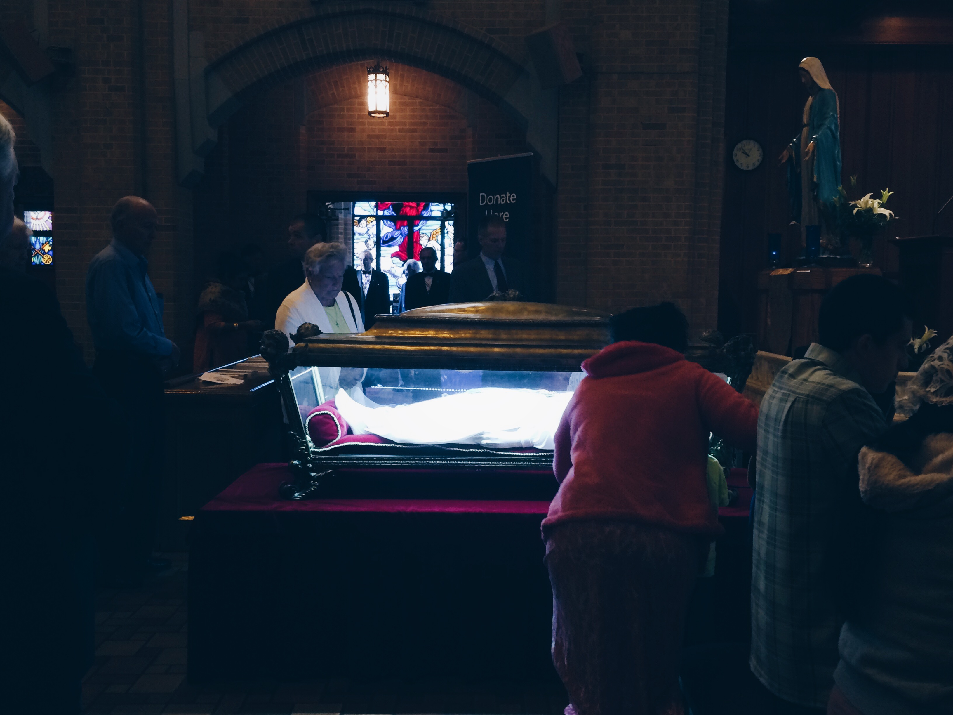 Body of St. Maria Goretti on display at Our Lady of Grace Catholic Church in Greensboro, North Carolina